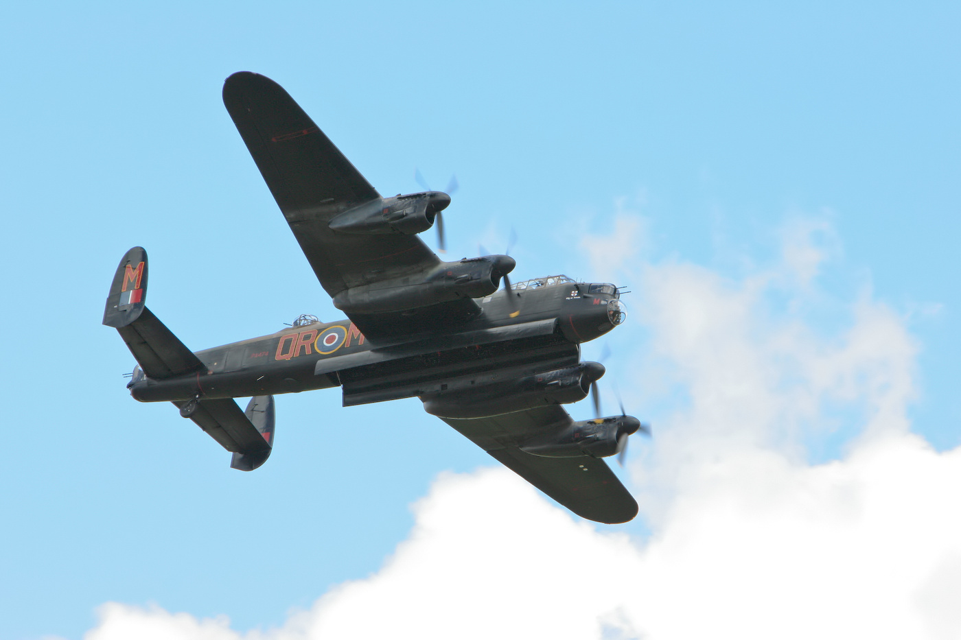 "City of Lincoln" Lancaster (BBMF)